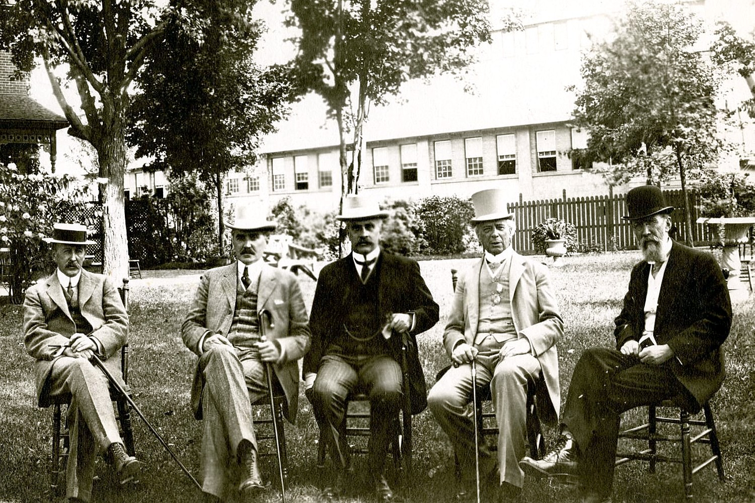 From left to right [1]: Martin Burrell (Minister of Agriculture), Thomas White (Minister of Finance and Receiver General), Robert Laird Borden (Prime Minister), Wilfrid Laurier (leader of the opposition and former Prime Minister), George Foster (Minister of Trade and Commerce) in Lansdowne Park, in Ottawa, during the 1912 Central Canada Exhibition.(Note: Bibliothèque et Archives nationales du Québec describes the person on the right as Isidore Belleau instead of George Foster, but it is likely a mistake by BAnQ.)